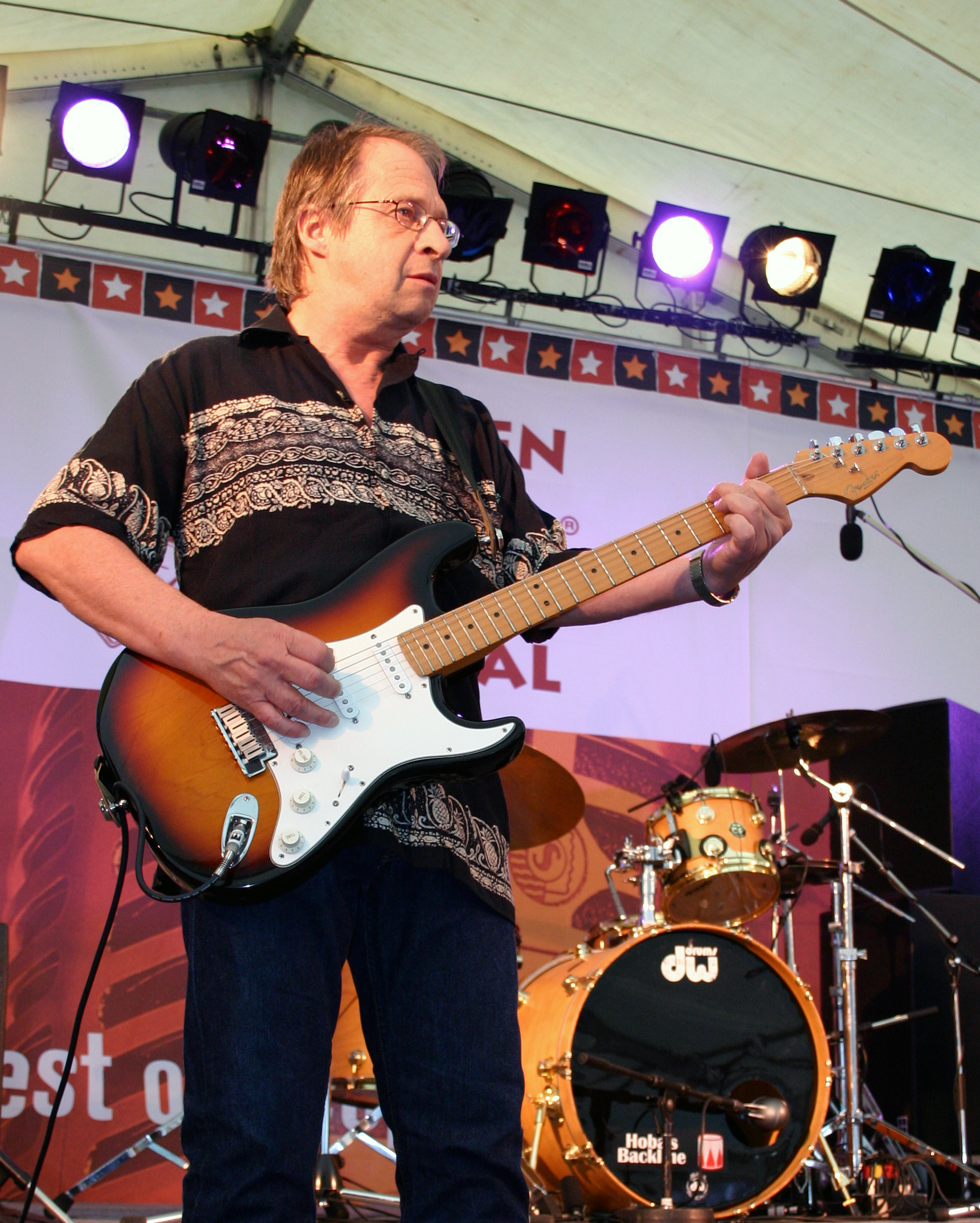 Kaare Virud performs at Notodden bluesfestival, Norway, 2004